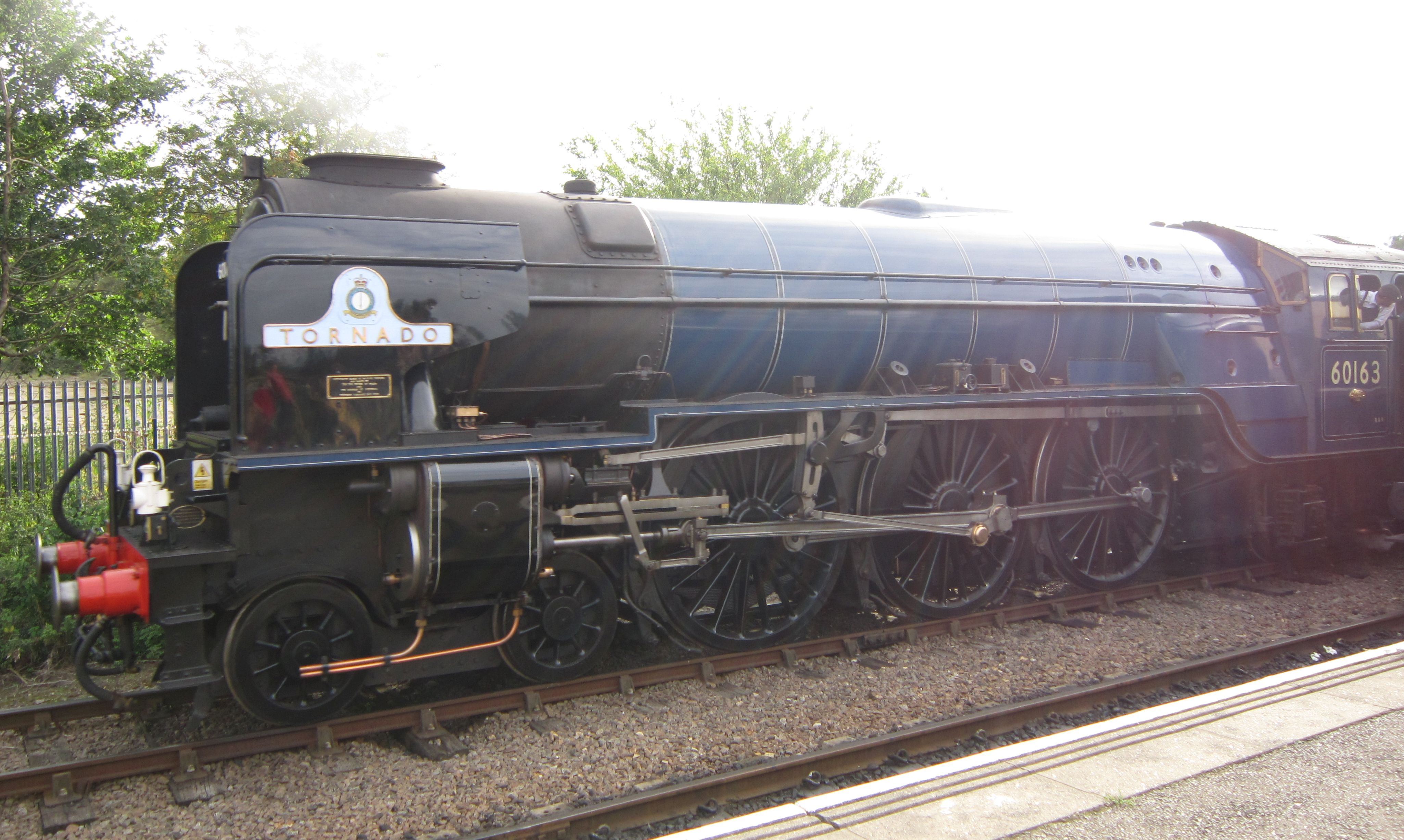 LNER Peppercorn Class A1 60163 Tornado in British Railways express passenger blue livery, at Nene Valley Railway, September 2014